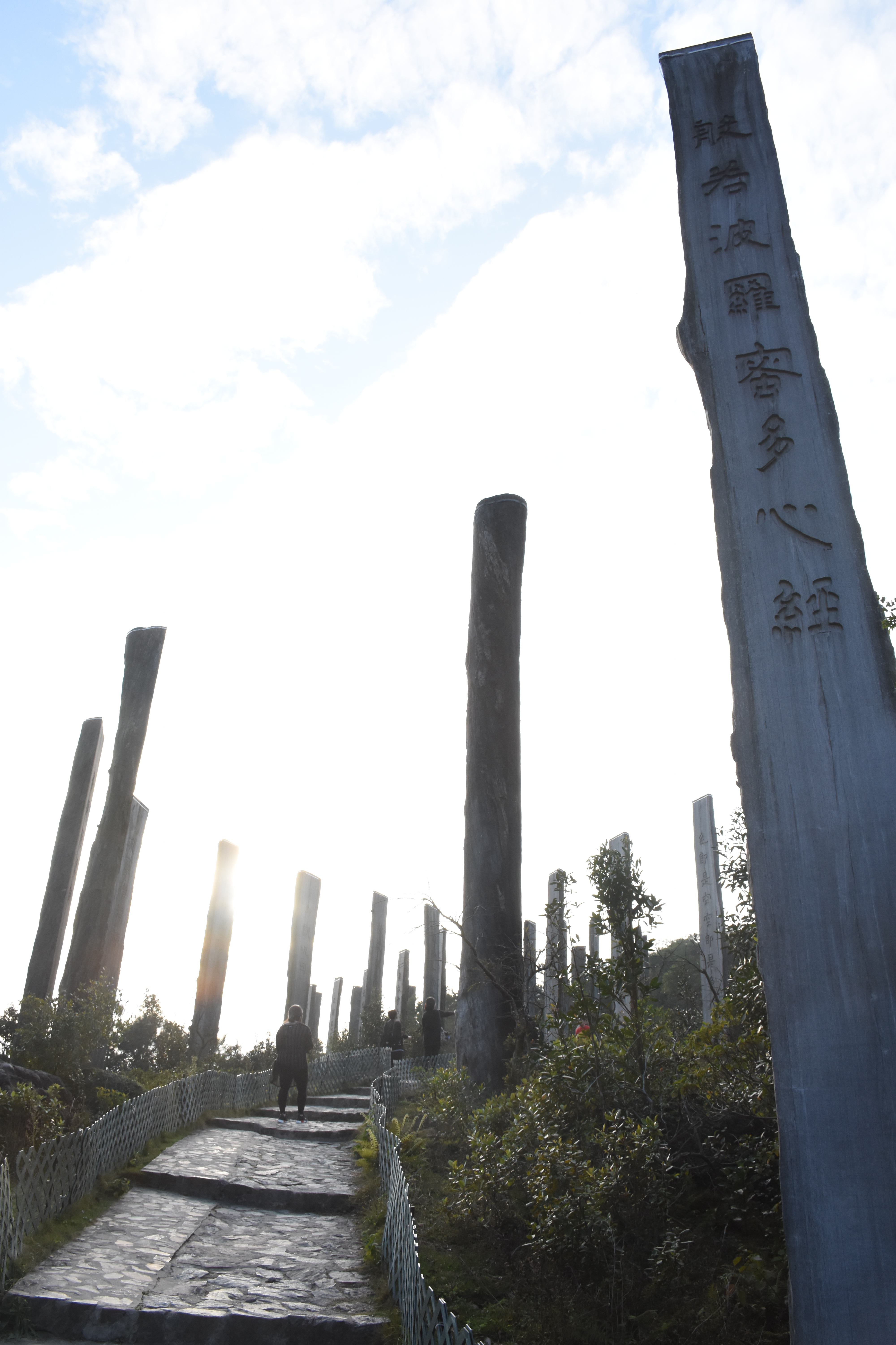 Wisdom Path, Ngong Ping